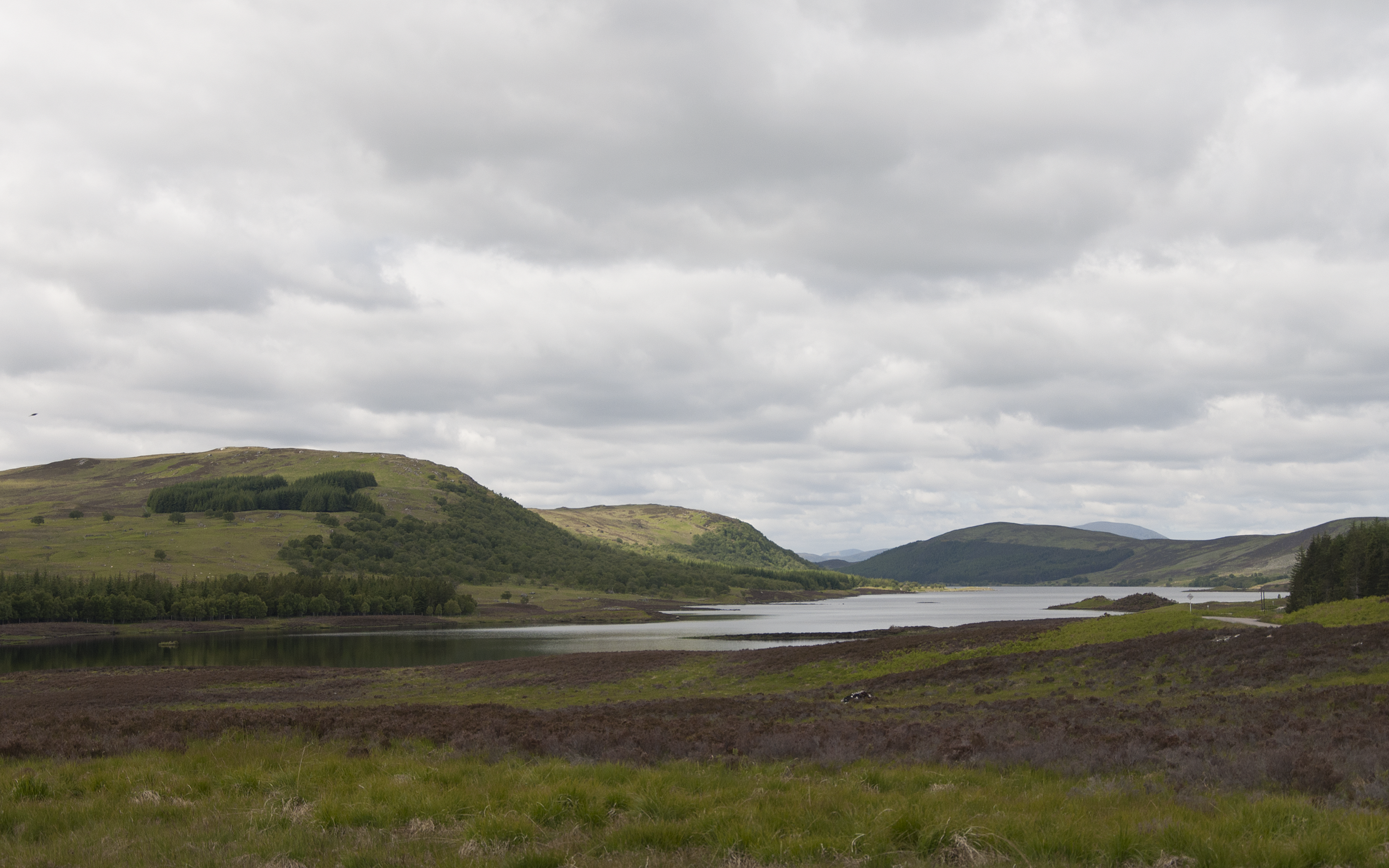 Loch Naver, Scotland